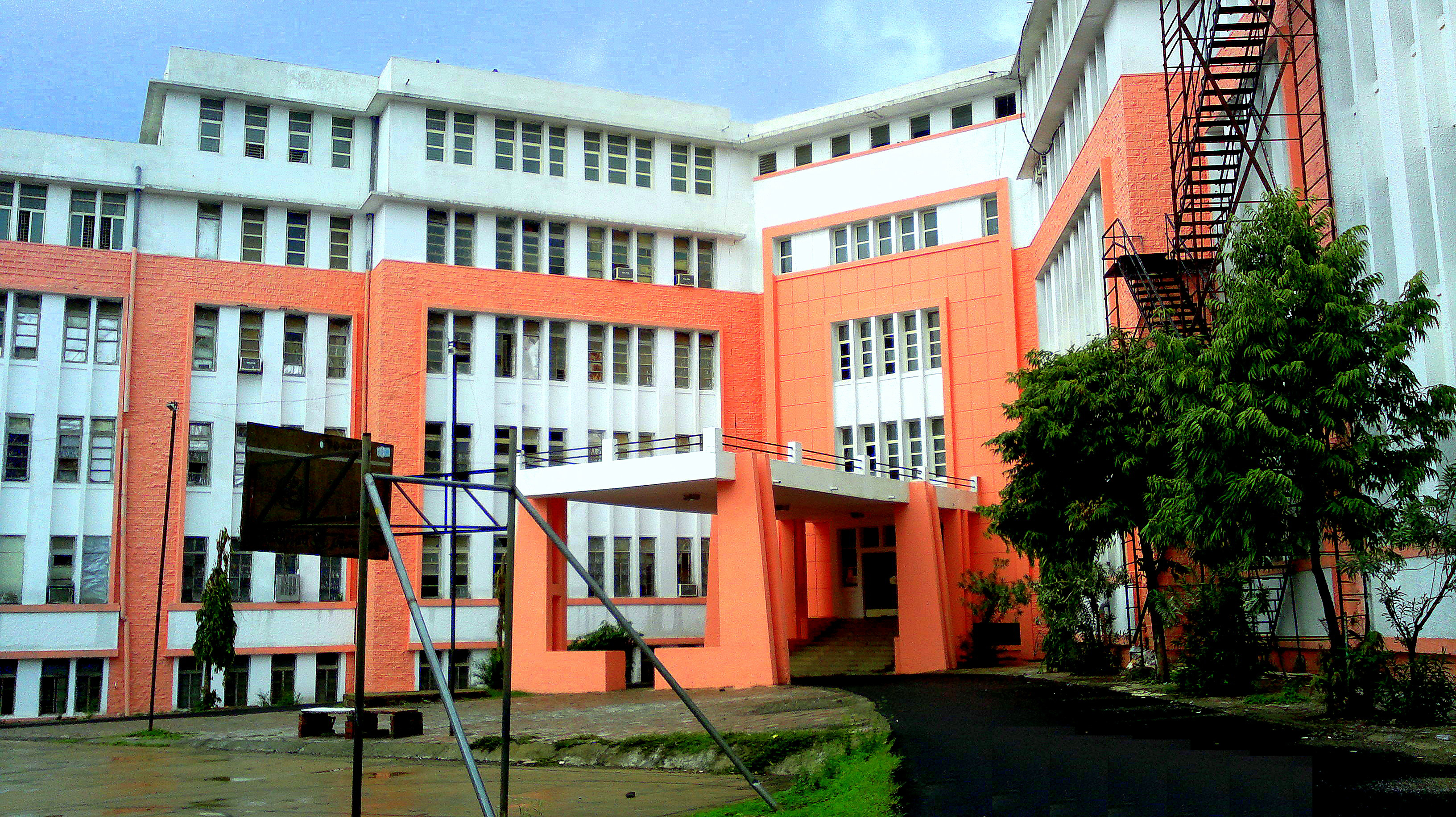 Back Porch of GMC main college building